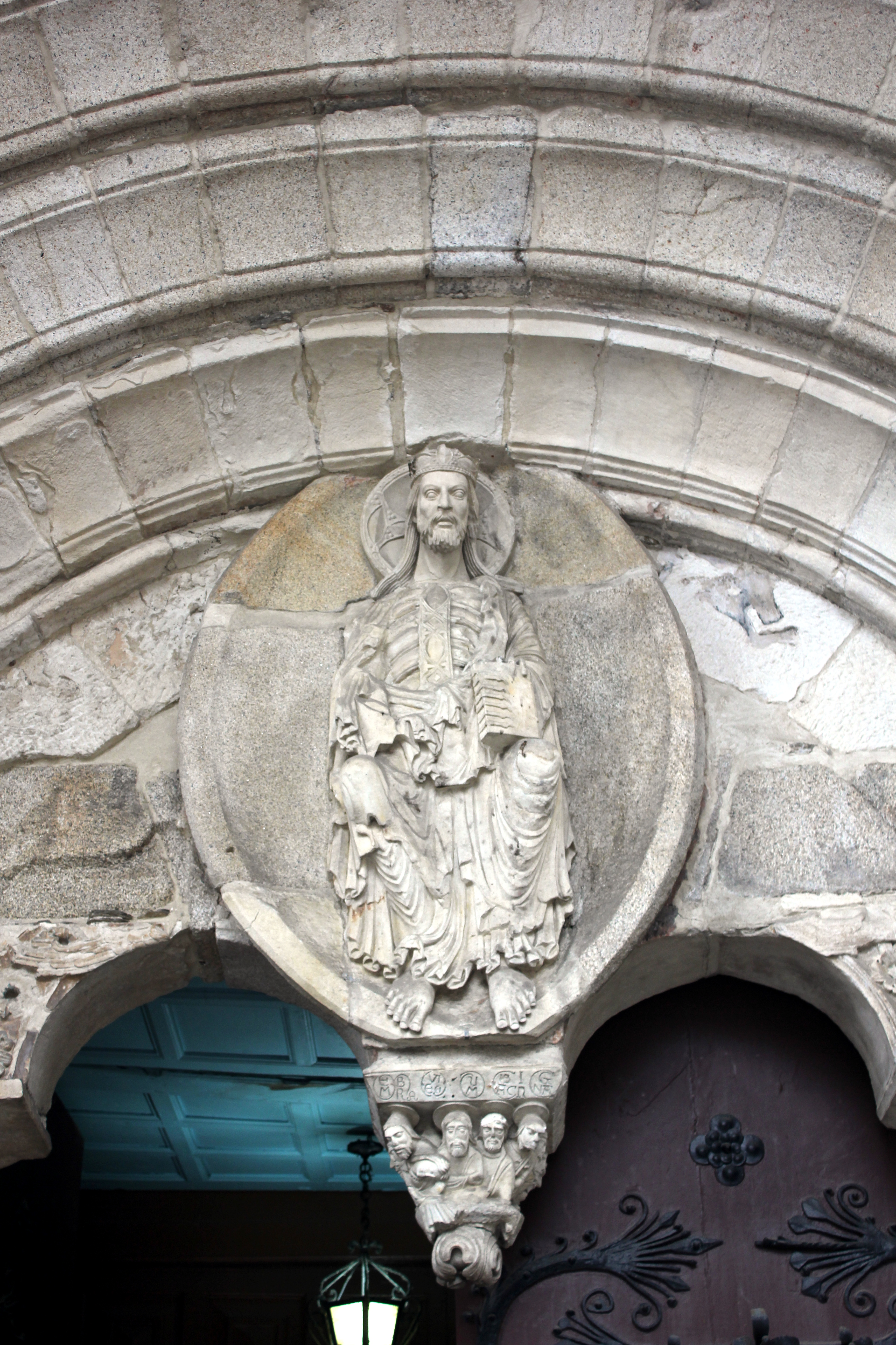 Detail of the north door of the Cathedral of Lugo.